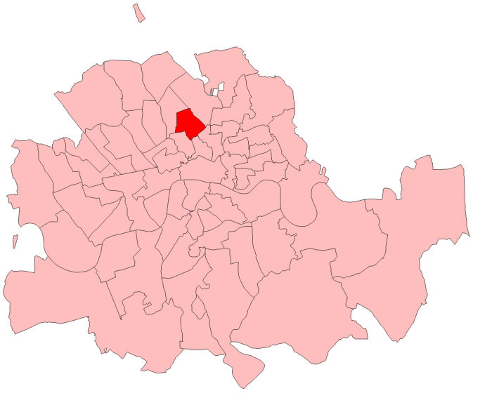 A map of Islington South constituency within the Metropolitan Board of Works area, as it existed from 1885 to 1918.